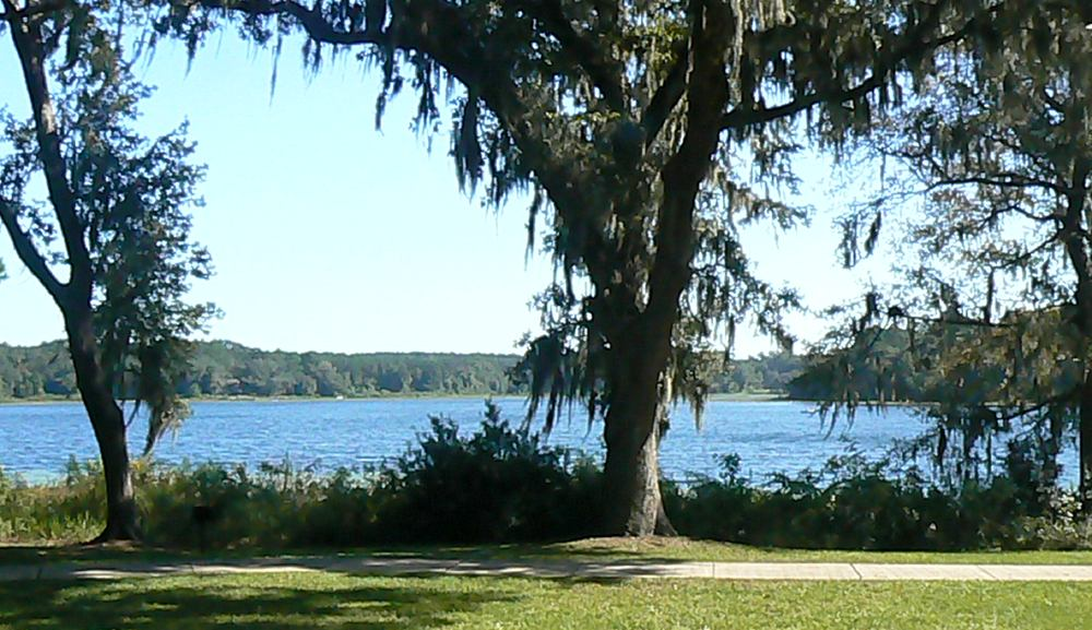 Lake Hall from Alfred B Maclay Gardens State Park, Tallahassee FL